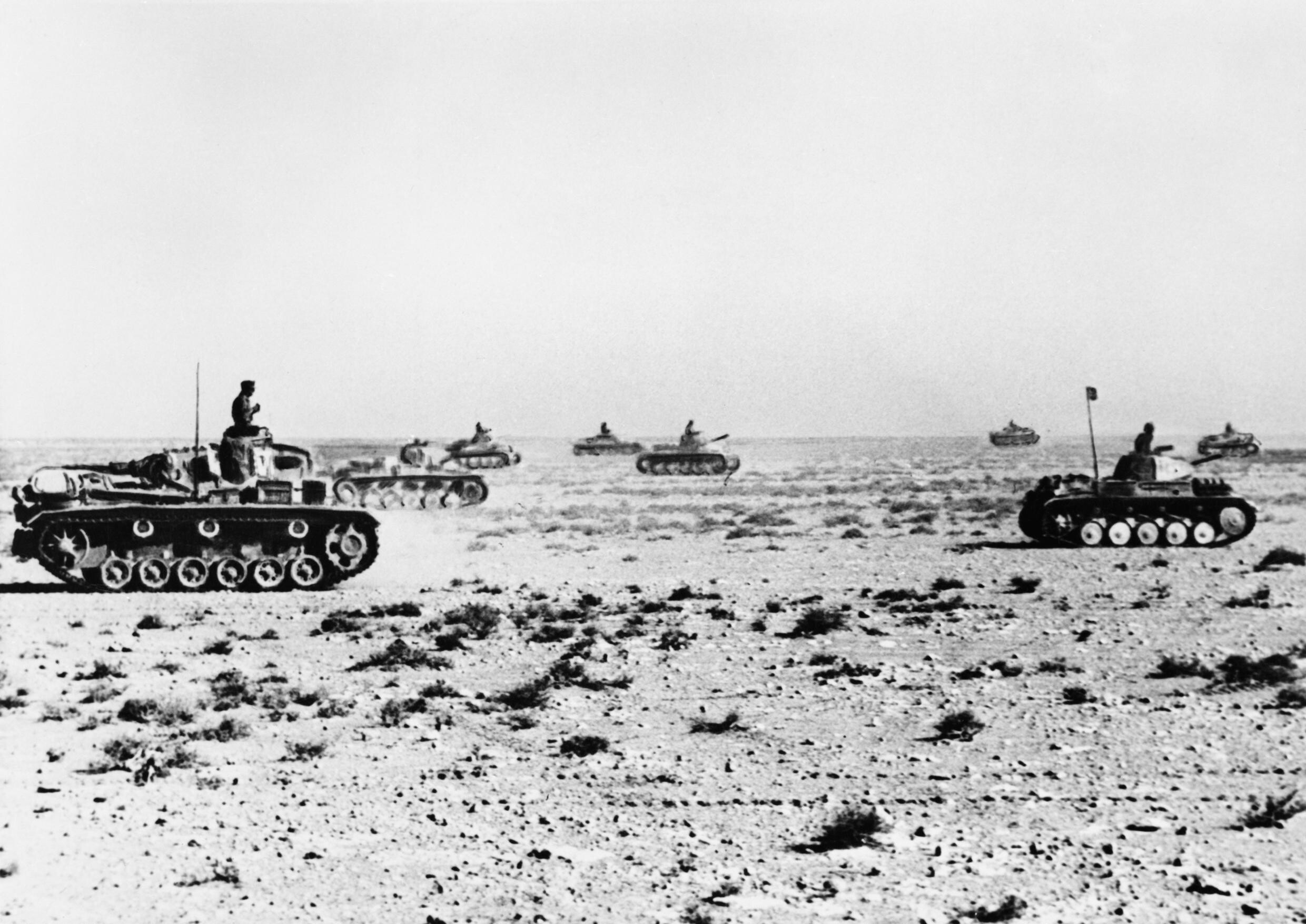 The Axis Offensive 1941 - 1942: German tanks advance in the desert shortly before the Battle of Sollum.